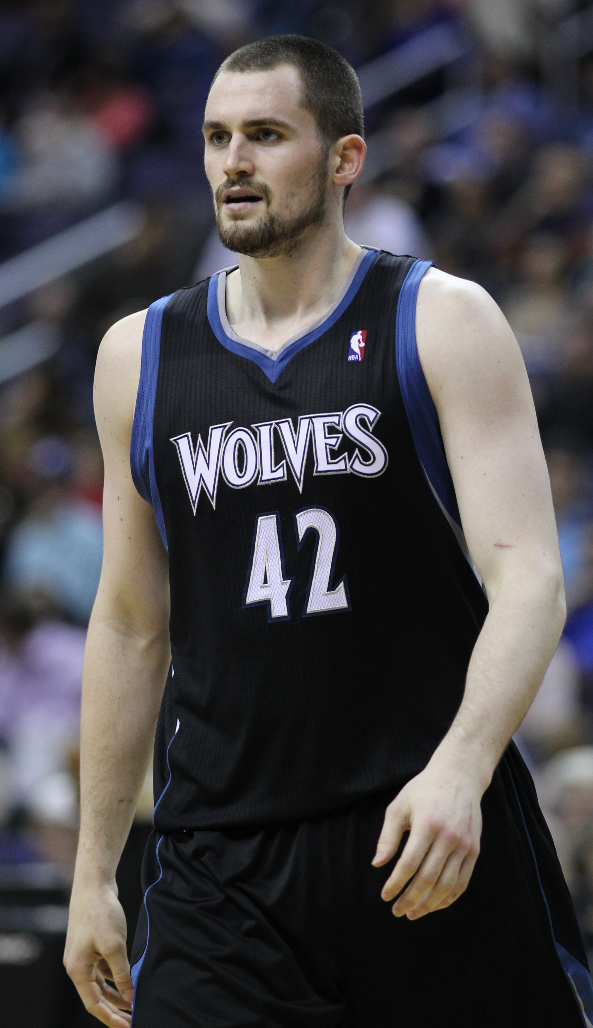 Wizards v/s Timberwolves 03/05/11